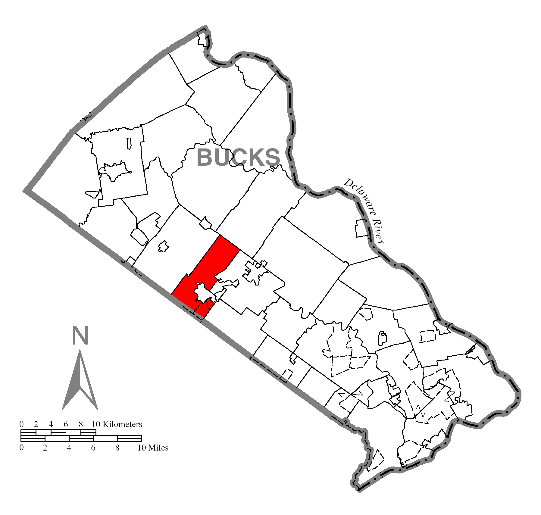 A map of Bucks County showing New Britain Township, Pennsylvania (alternate) highlighted on the map.